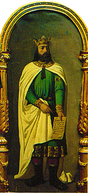 Sancho III of Navarre